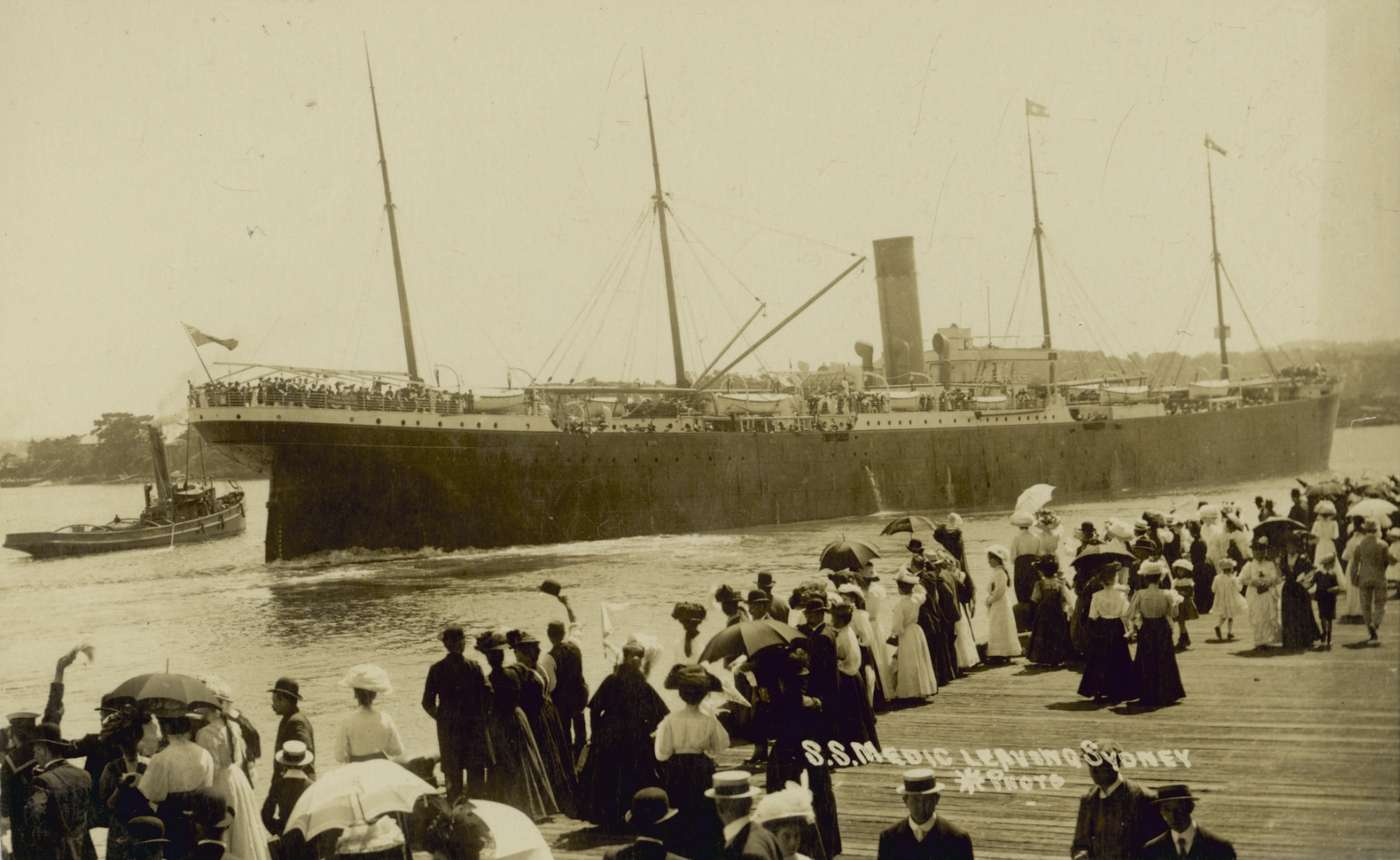 White Star Liner Medic leaving Sydney